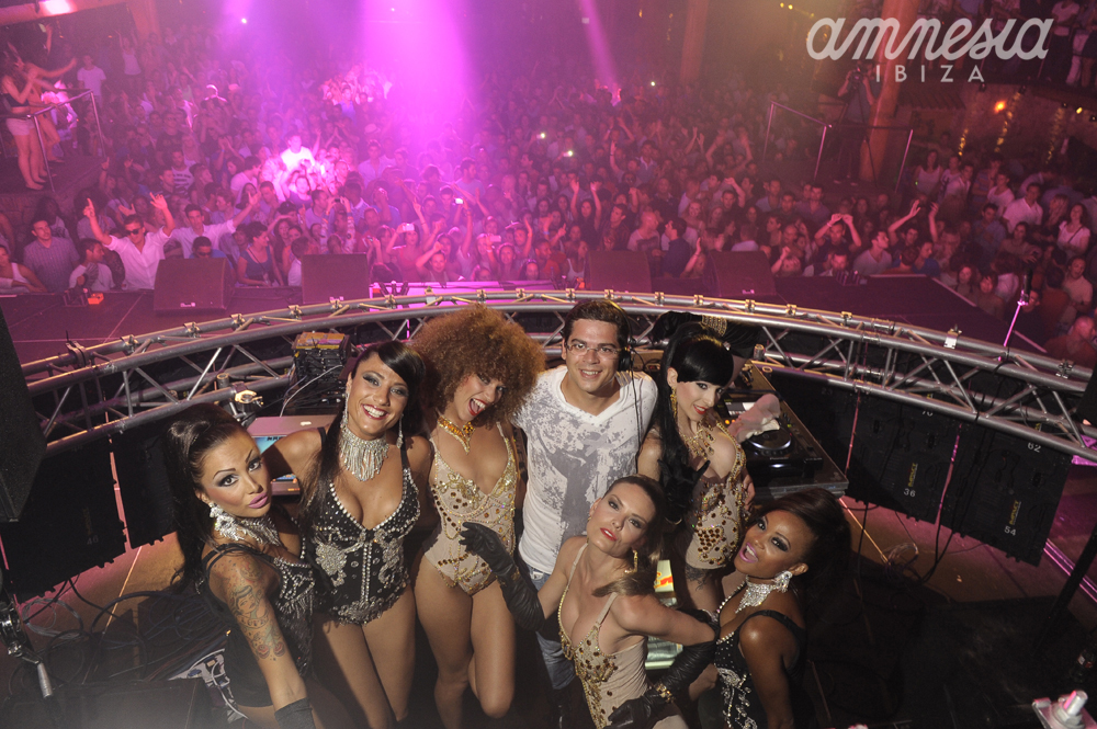 01.07.12 - Pop Star Opening Party 2012. More pics at